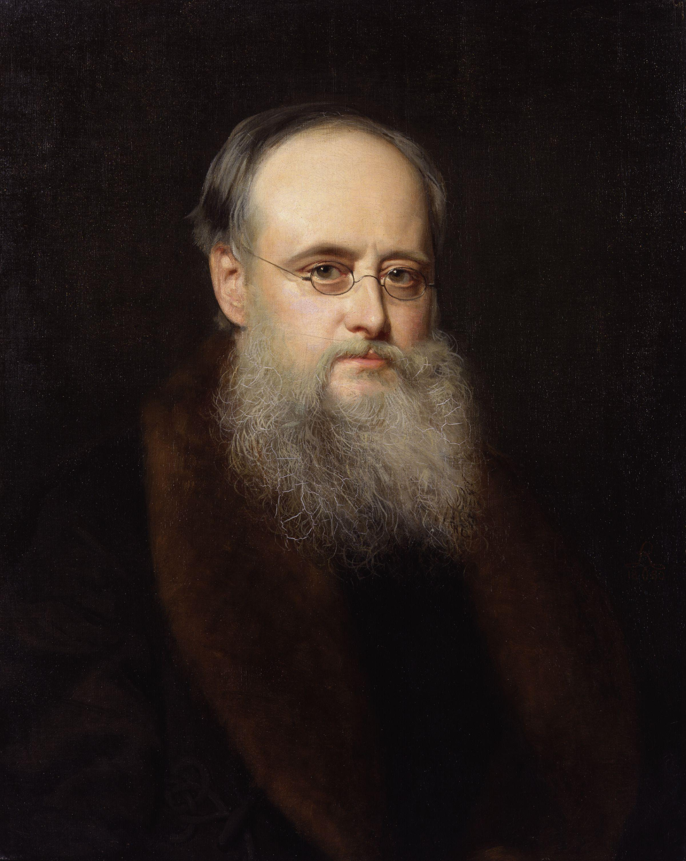 (William) Wilkie Collins, by Rudolph Lehmann (died 1905), given to the National Portrait Gallery, London in 1947. All images in this batch have been confirmed as author died before 1939 according to the official death date listed by the NPG.